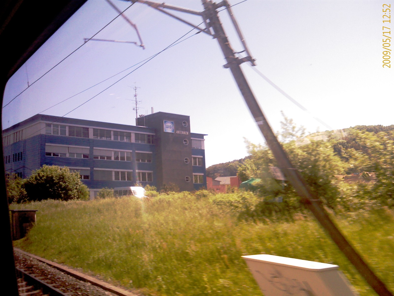 Building of Wisi en Mägenwil, canton of Aargau, SwitzerlandEsperanto: Sidejo de Wisi en Mägenwil, Kantono Argovio, Svislando